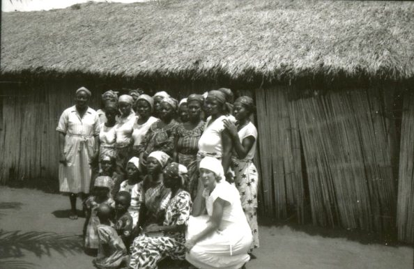 Caption: Lynda with an Apostolic Church women's group at Kpomasse, a one- to two-hour drive from Cotonou. Citation: Mennonite Board of Missions Photographs. Benin, Hollinger-Janzen, 1990's. IV-10-7.4 Box 1 Folder 15. Mennonite Church USA Archives - Goshen. Goshen, Indiana.